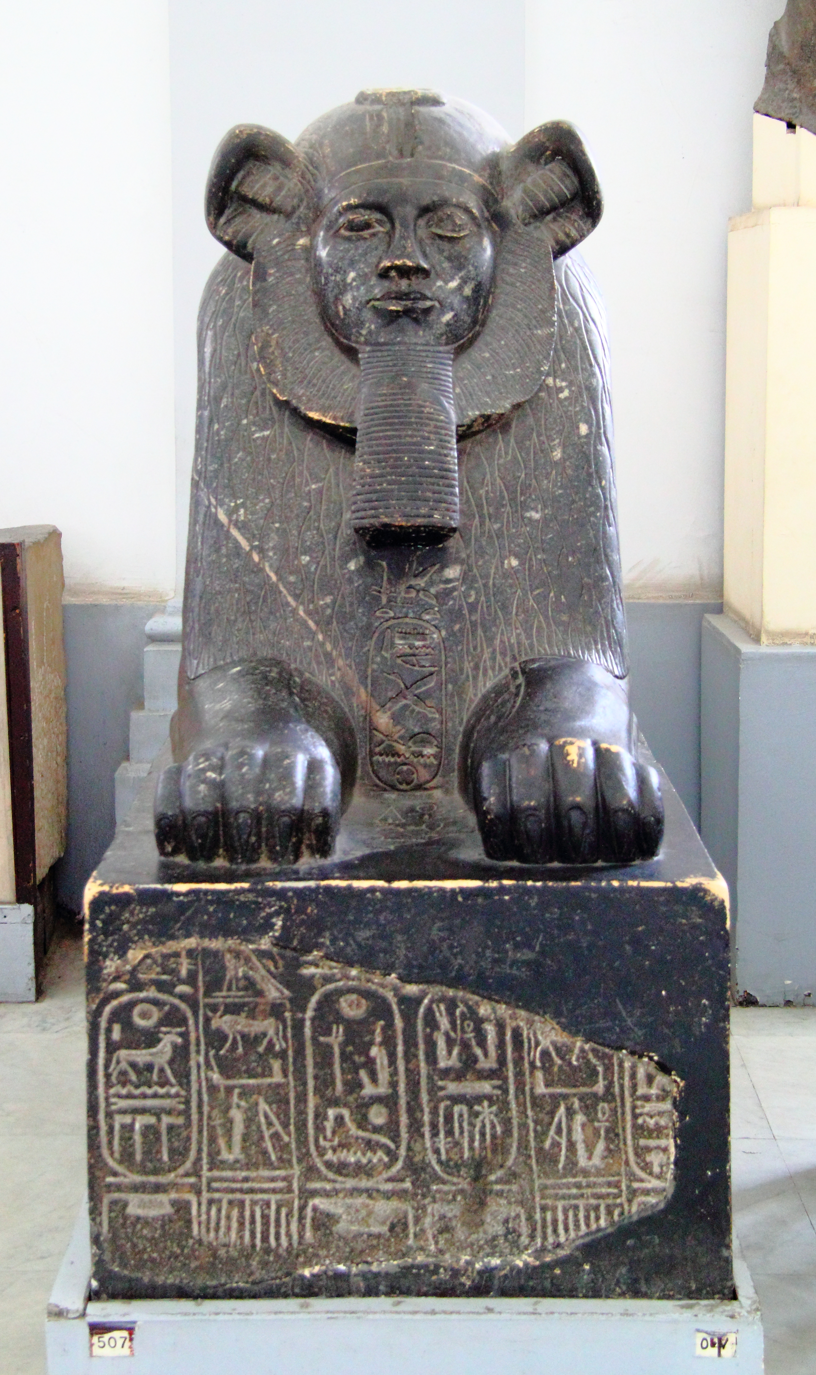 Egyptian Museum, Cairo: sphinx of king Amenemhat III, 12th dynasty, Middle Kingdom of Egypt Cairo, Egyptian Museum, main floor, gallery 16, JE 15206 = CG 394 (H= 150 cm)